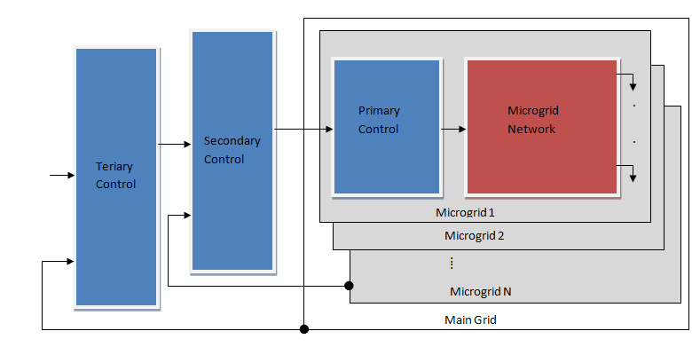 Microgrid Hierarchical Control, schema